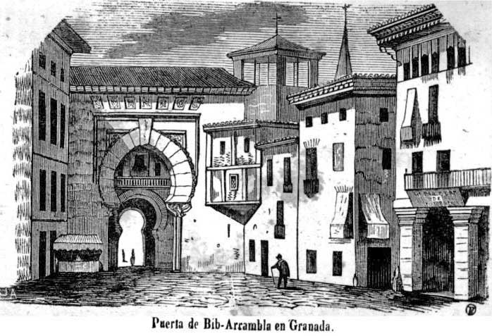 also called Bib-Arrambla gate.